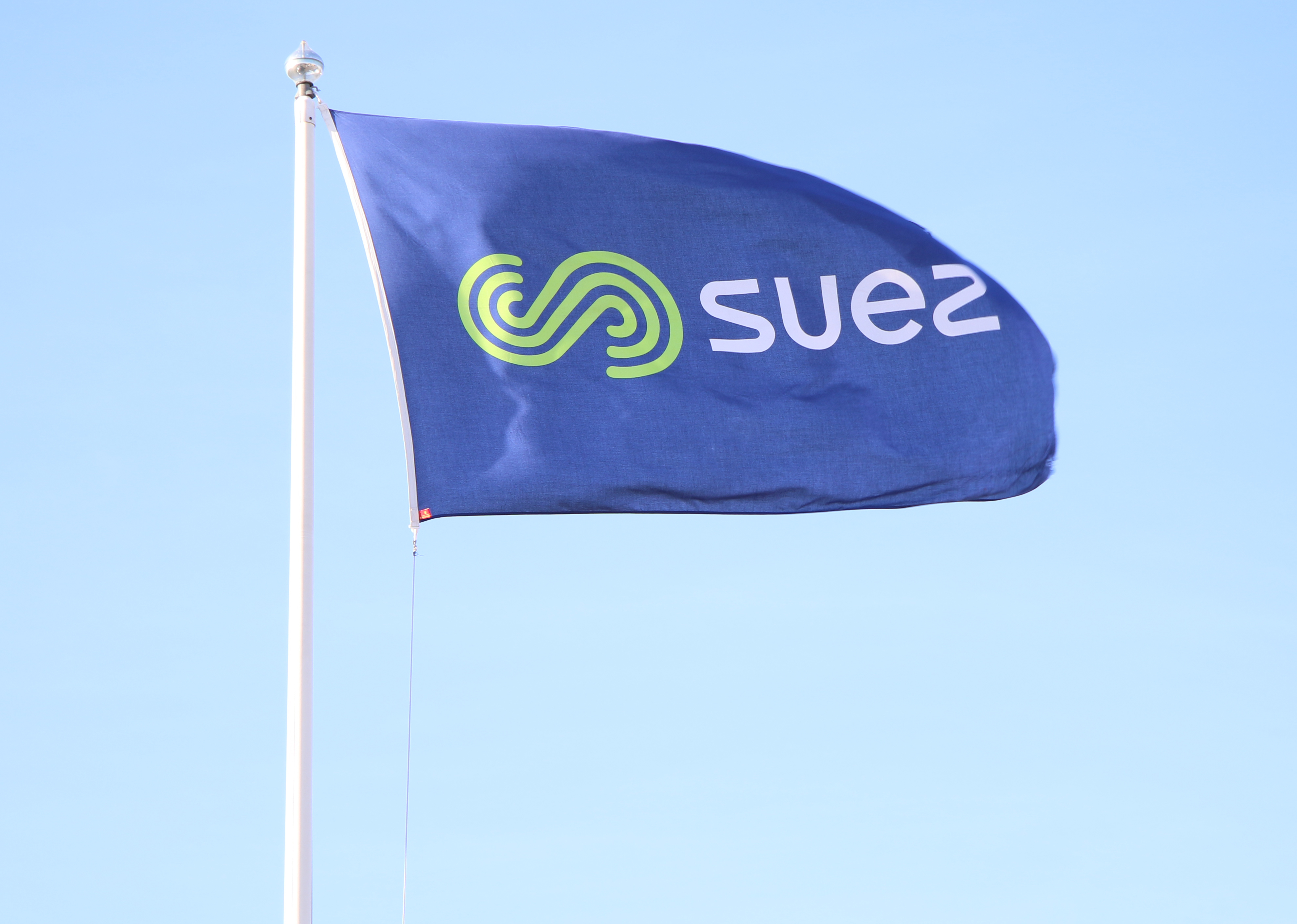 SUEZ Recycling AB's company flag